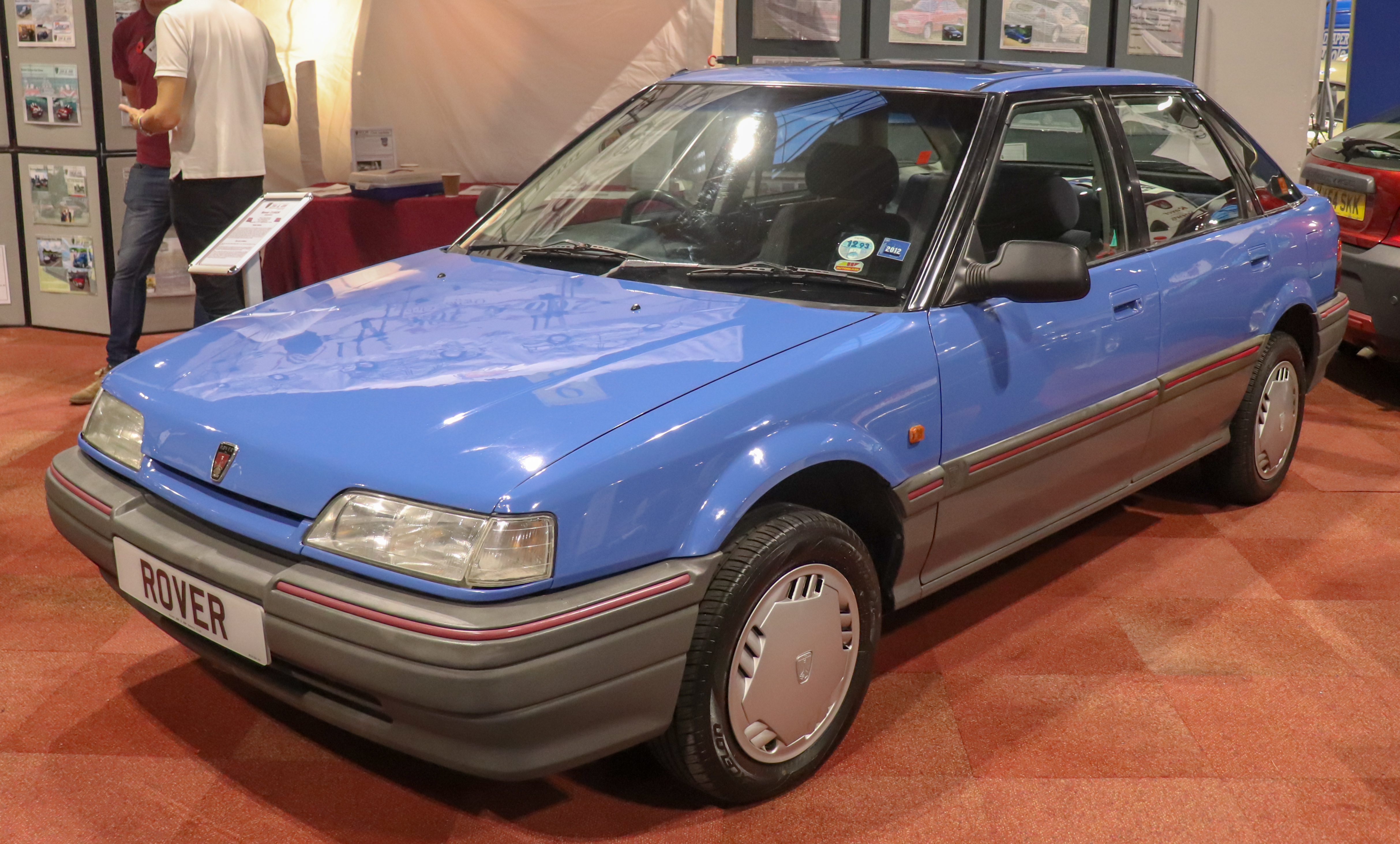 1990 Rover 216 GSi 1.6 Front Taken at the NEC Classic Motor Show 2018